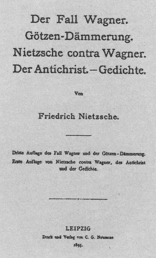 Title page of first edition of Nietzsche's Der Antichrist.